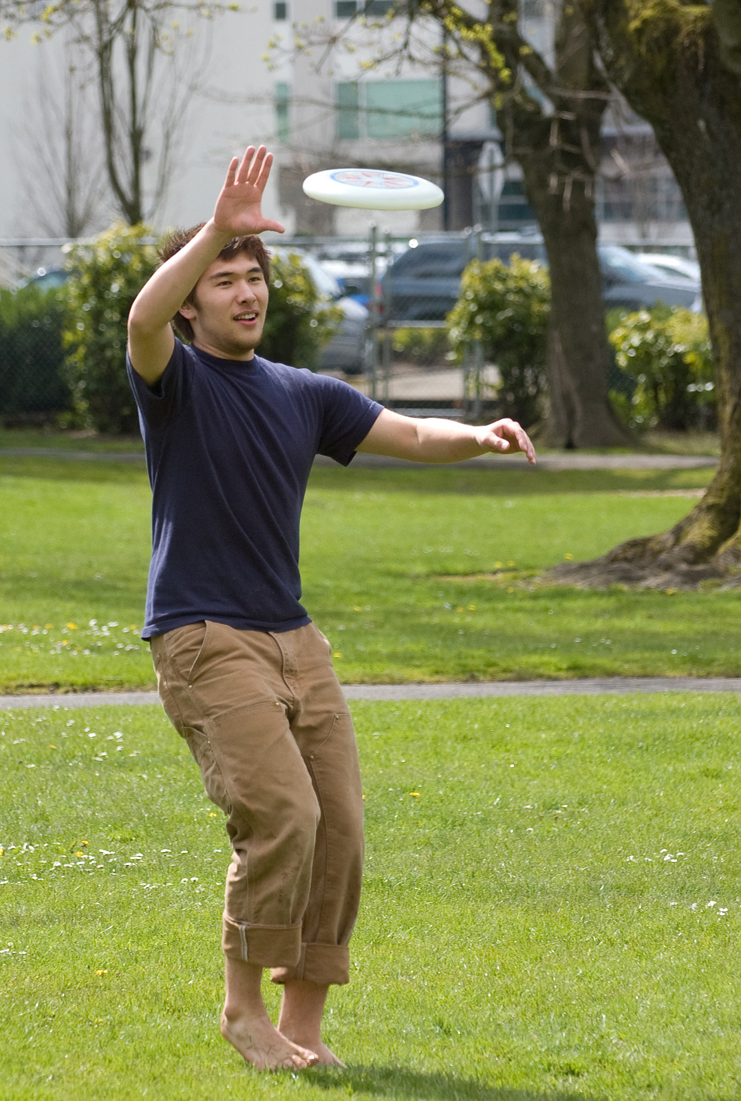 A Frisbee player catches the frisbee.